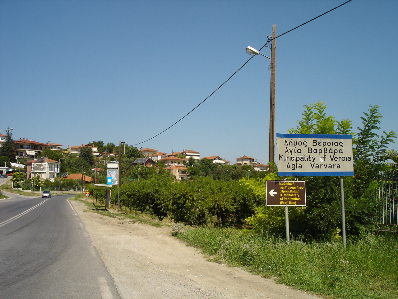 village of Sveta Varvara (Αγία Βαρβάρα) in Aegean Macedonia, Beroia prefecture of Greece